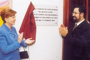 Mark A. Sammut and President of Latvia Vaira Vike-Freiberga, February 2004